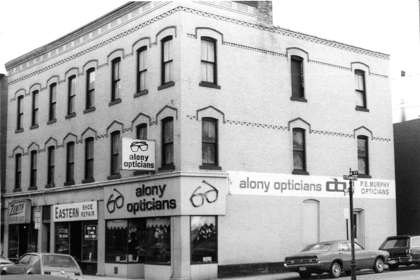 Fitzgerald's Stearns Square Block, Springfield, Massachusetts. Building has been demolished.